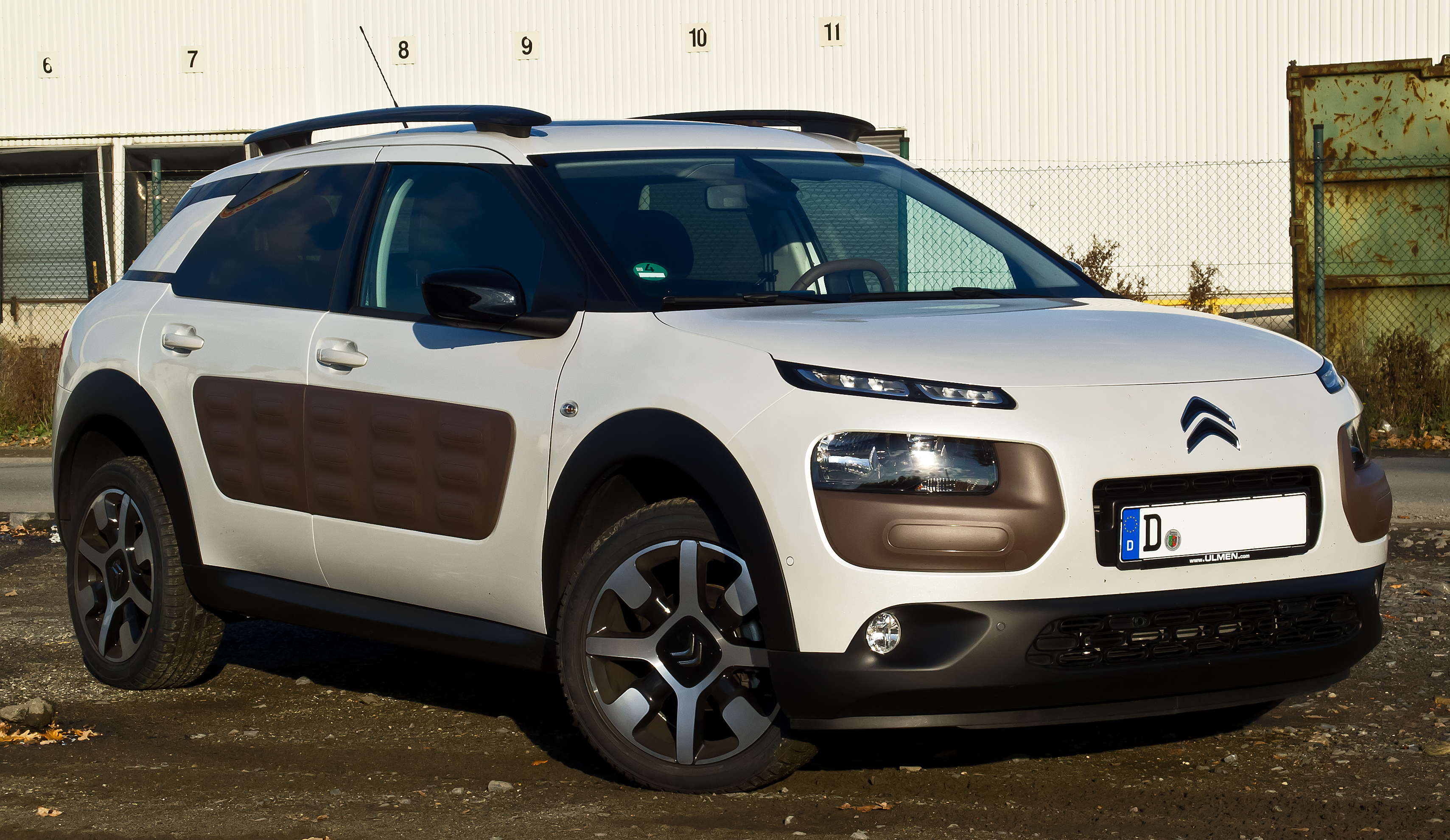 Citroën C4 Cactus BlueHDi 100 Shine Edition